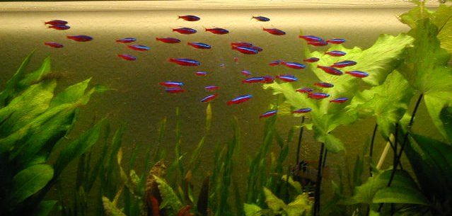 Aquarium with a school of Cardinal tetra (Paracheirodon axelrodi) and a Ram cichlid (Mikrogeophagus ramirezi, facing left in the lower right quarter of the image)